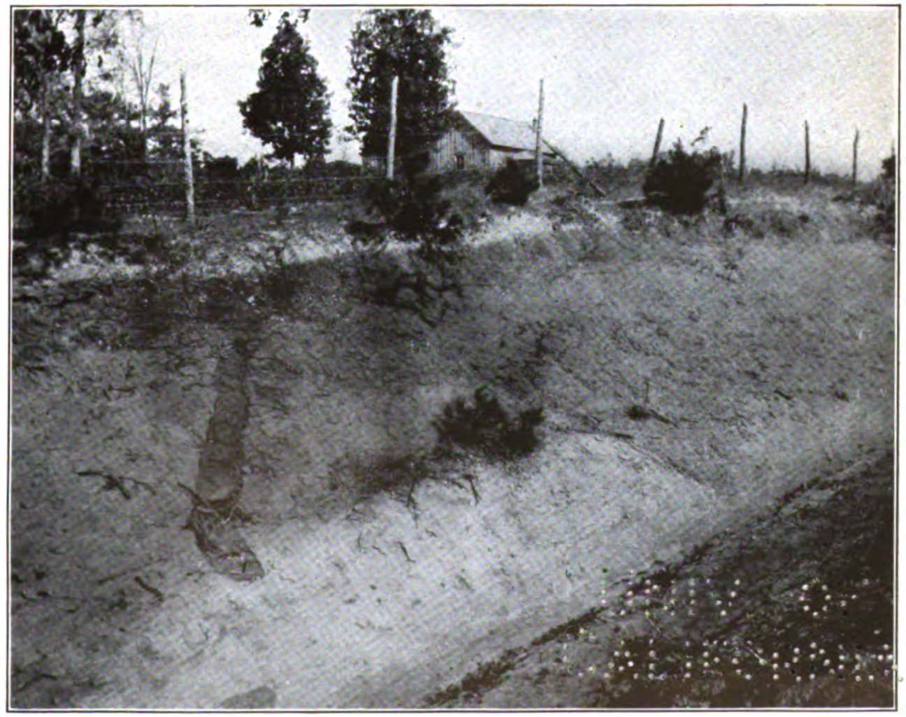 Bulletin 429 Plate XV B original caption: East bank of cut on Washington-Hope (Ark.) public road, 1 1/2 miles southeast of Washington, Arkansas. Showing below and to the left Nacatoch sand with burrow of some Cretaceous reptile, now filled by later deposits (above and to the right).